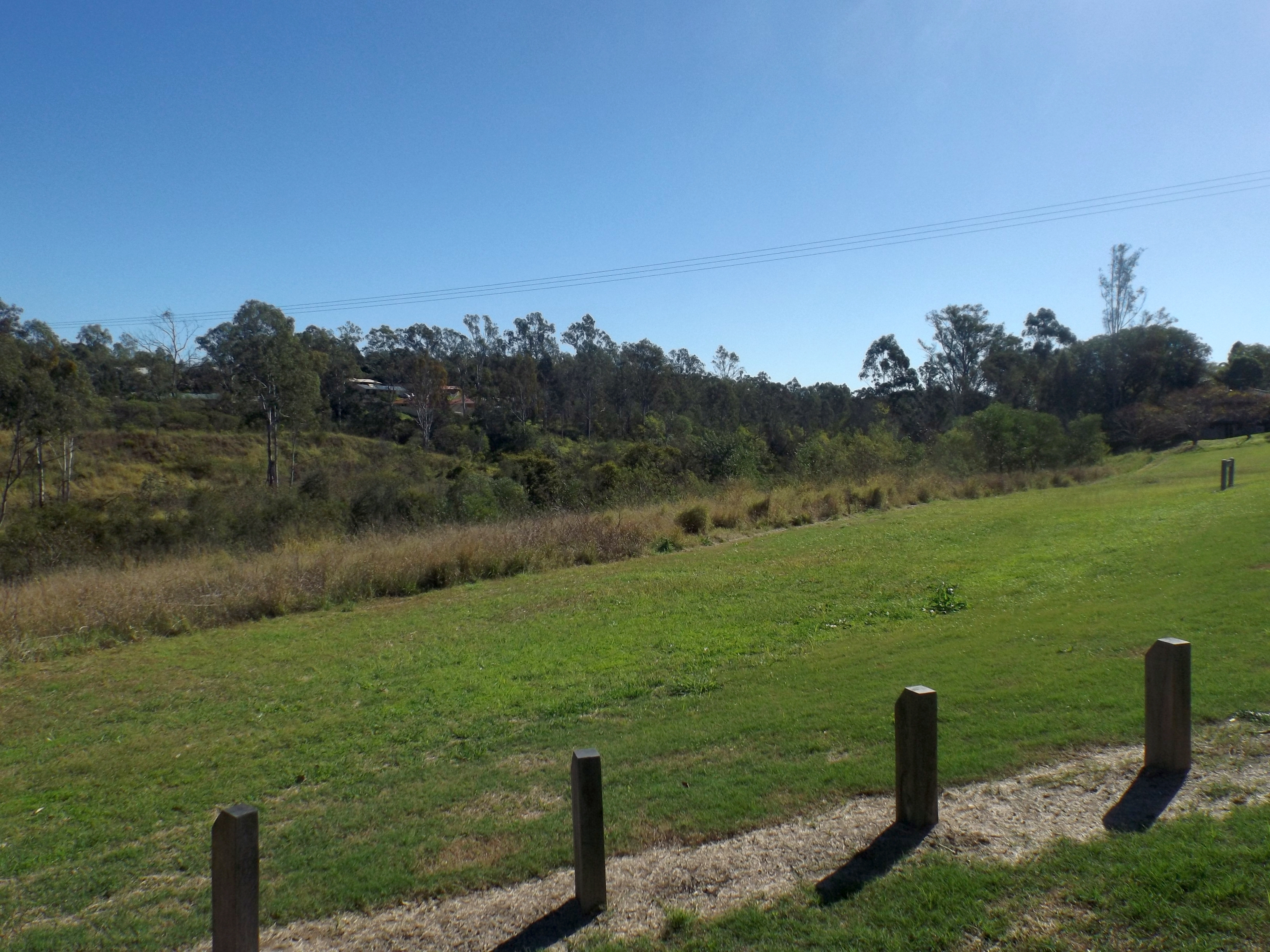 Photo of parkland along Gladstone Road and the Bremer River at Sadliers Crossing in City of Ipswich, Queensland, Australia. .Background shows parts of Wulkuraka.